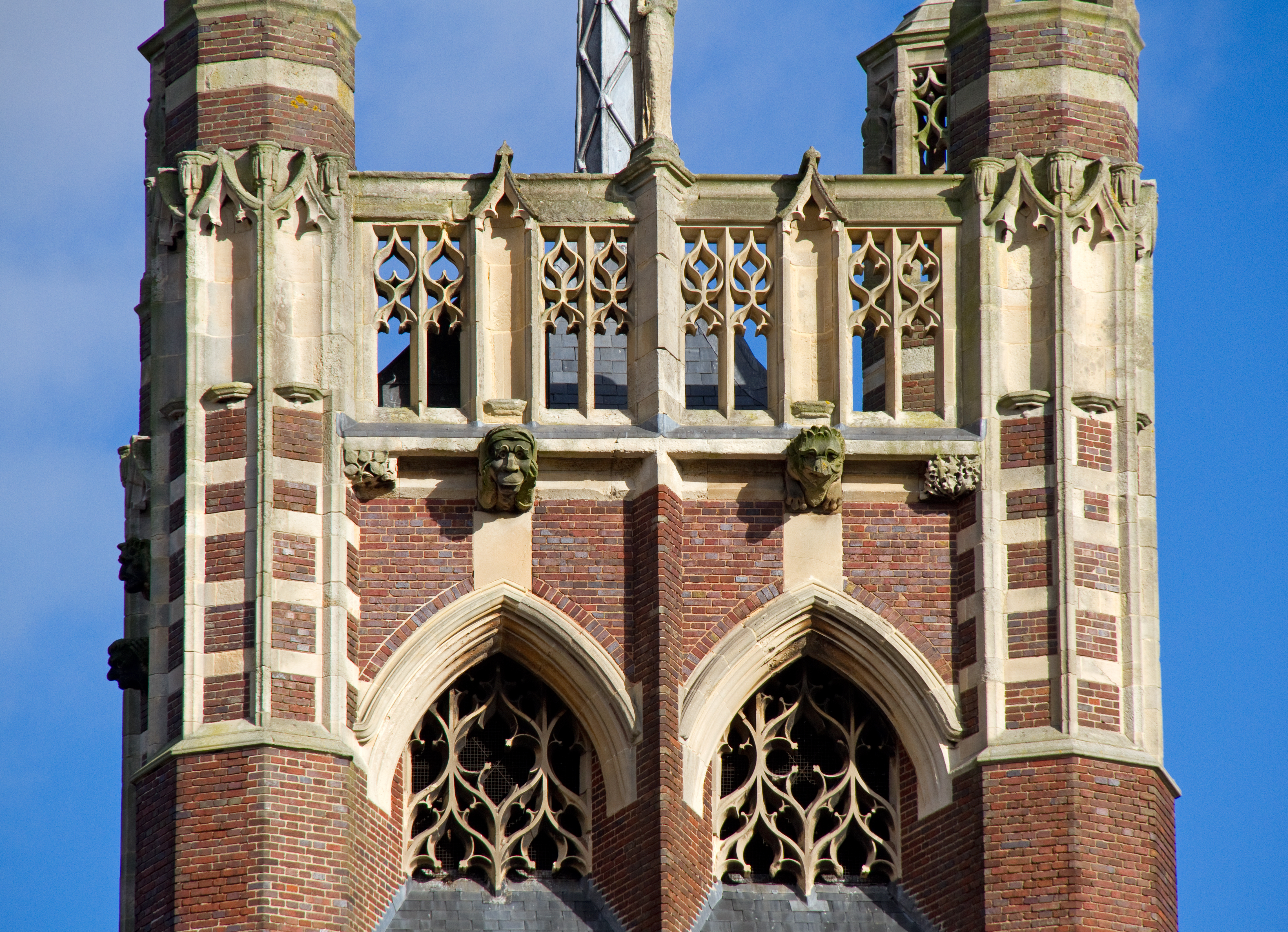 Top stage of the northeast tower of St Agatha's parish church, Stratford Road, Sparkbrook, Birmingham